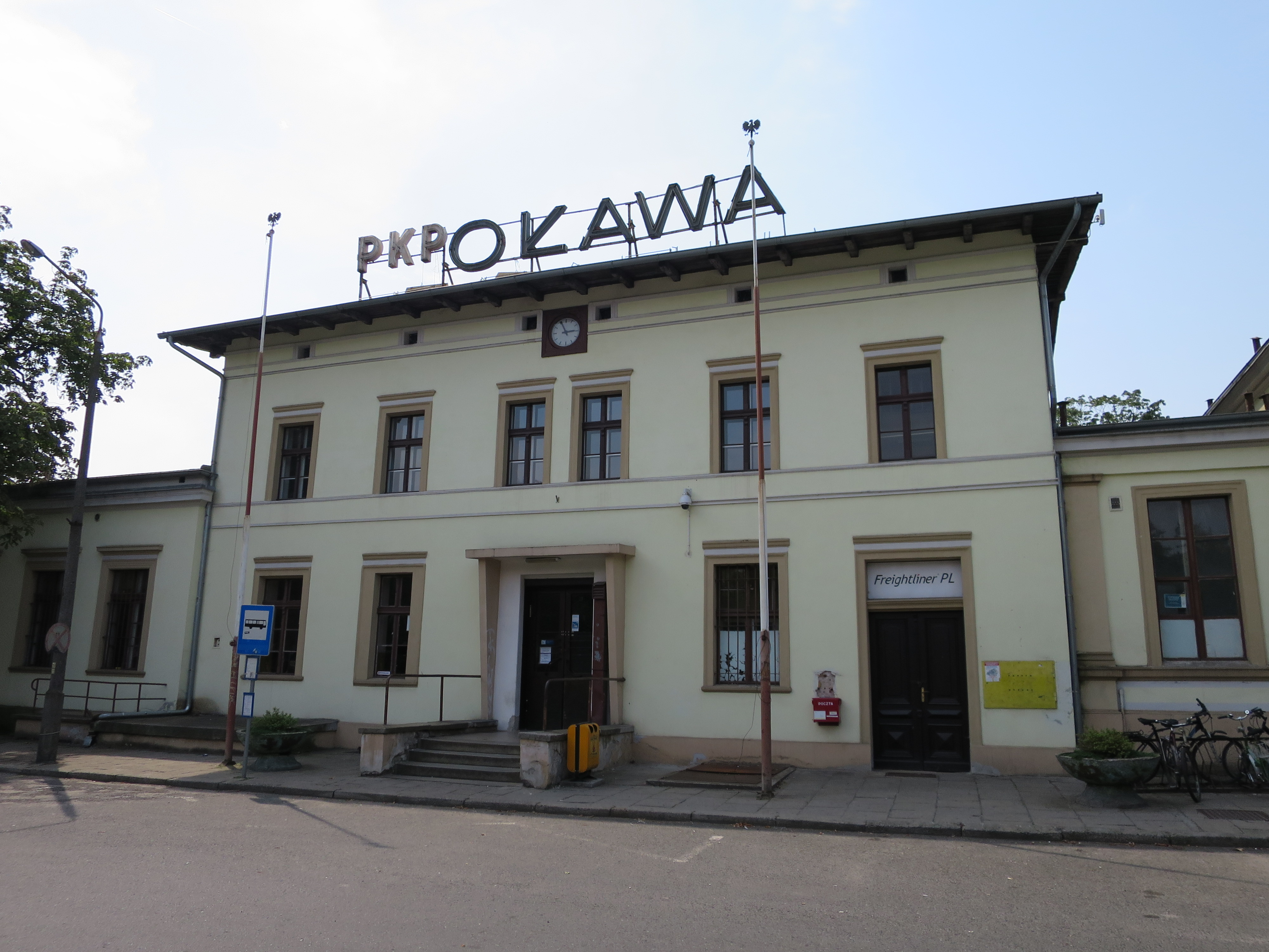 Dworzec kolejowy w Oławie This photo was taken during Railway Wikiexpedition 2015 set up by Wikimedia Polska Association in cooperation with Fundacja Grupy PKP. You can see all photographs in category Wikiekspedycja kolejowa 2015.